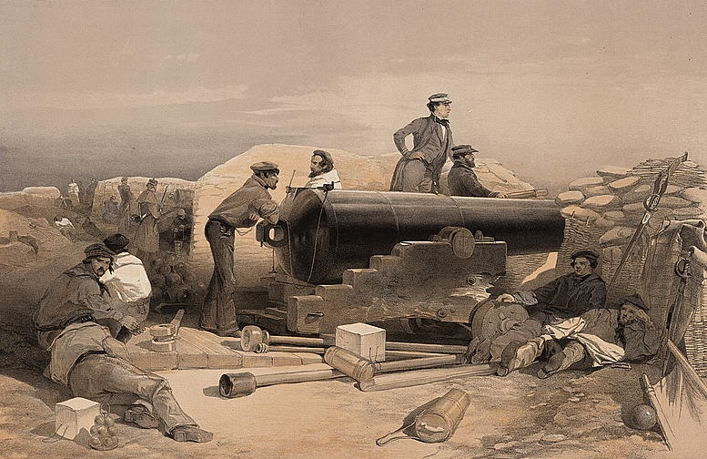 Print shows a large Lancaster cannon in a British artillery battery.